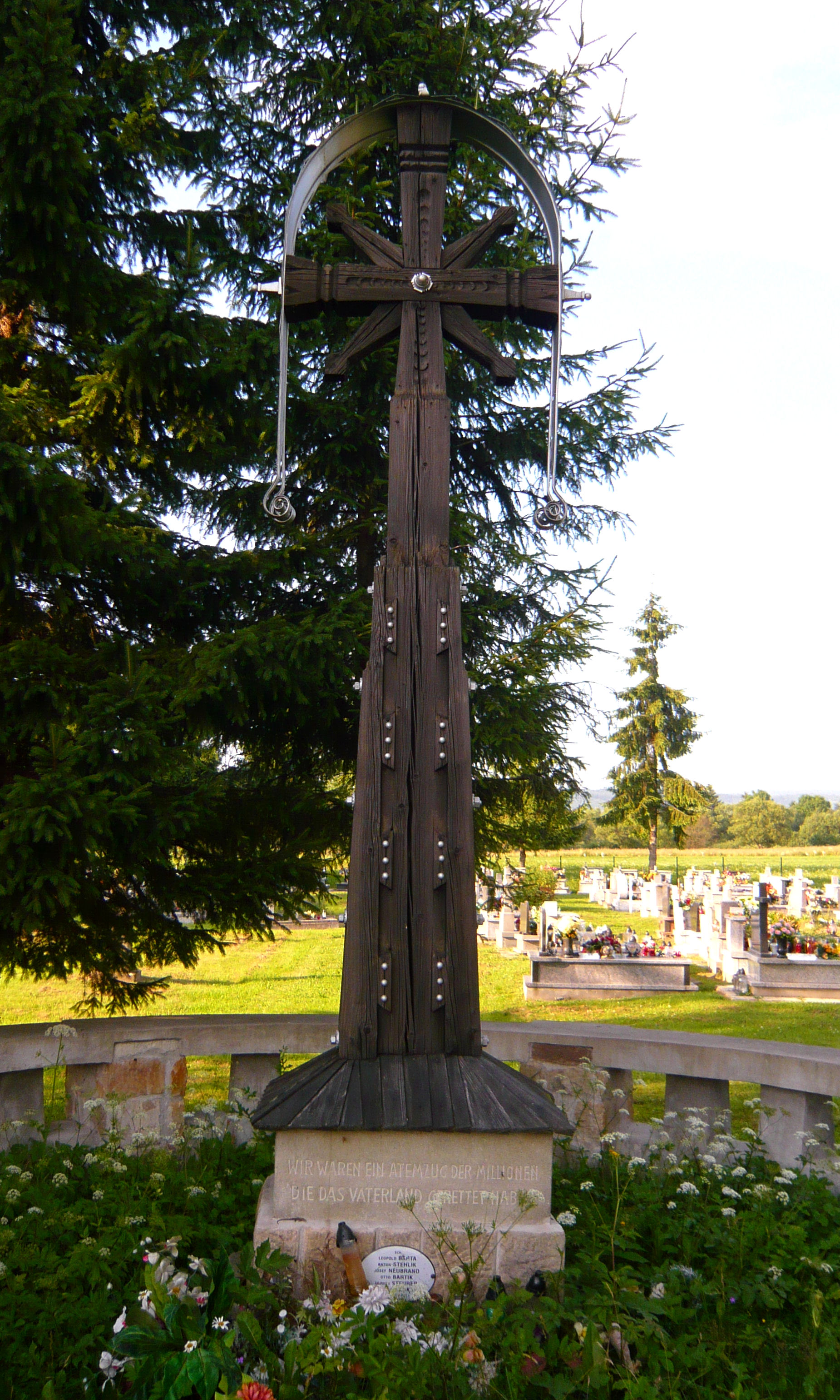 World War I Cemetery nr 56 in Smerekowiec